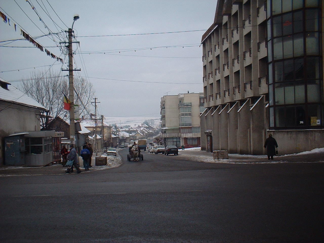 Huedin in Transsylvania